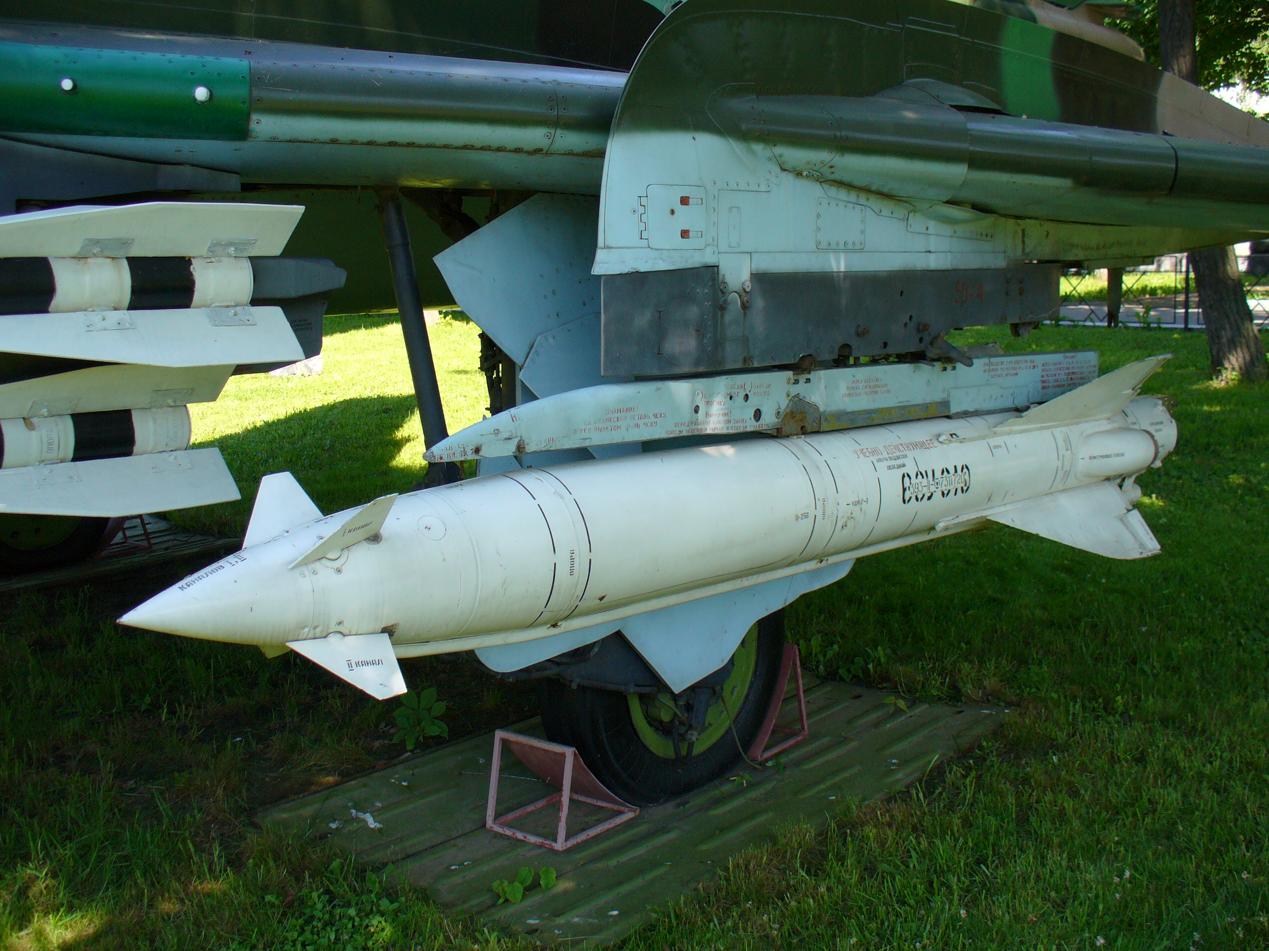 The Sukhoi Su-17M3 (NATO reporting name: "Fitter-H"), a Soviet attack aircraft. Ukrainian Air Force Museum in Vinnitsa.